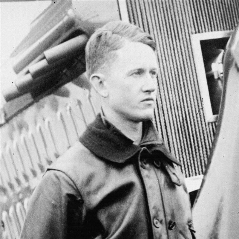 Carleton George Chapman (1886-1971) in 1915